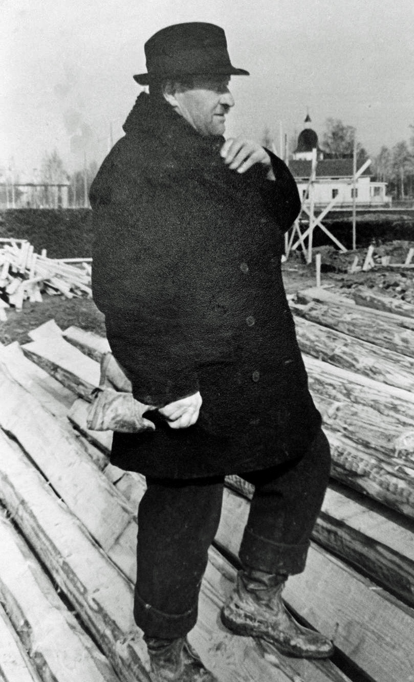 Ostrobothnian bridge builder Valle Antila (1882–1938)